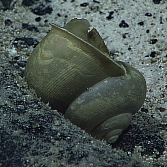 Photo of Gaza daedala. Expedition 1504 (2015 Hohonu Moana: Exploring Deep Waters off Hawaiʻi), leg number: L2, dive number: 04.